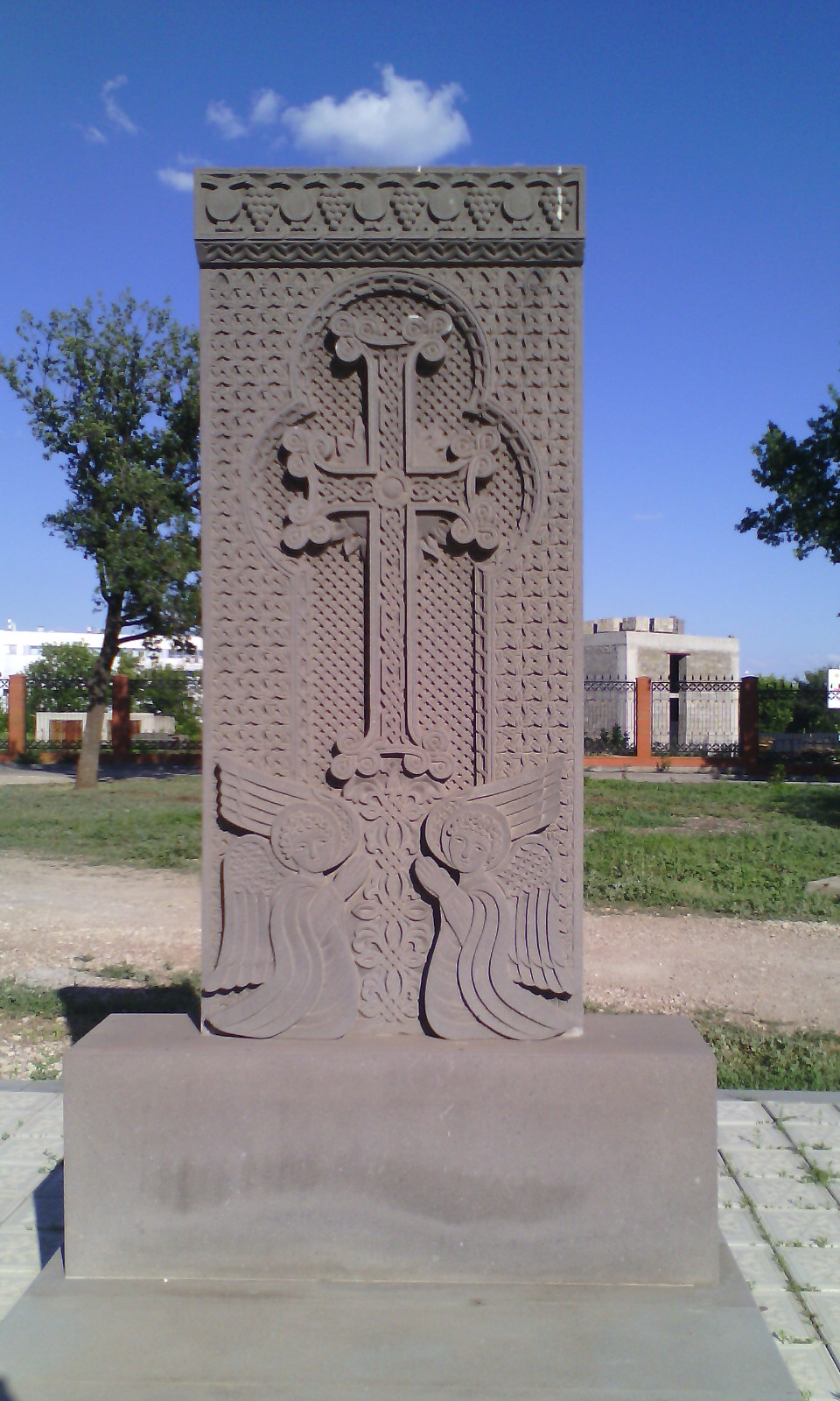 A crosstone to 1915 Genocide victims